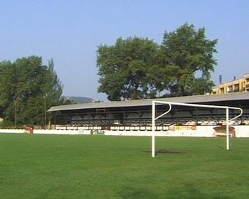 This picture was he base for created postcard about Hungarian stadium collection in 2001.